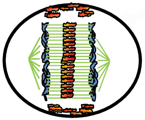 Anaphase spindle midline. Green indicates microtubules, blue - chromosomes and yellow - Septin 2, 6, 7 complex Part of Fig 5. Model for TTFields action leading to mitotic disruption